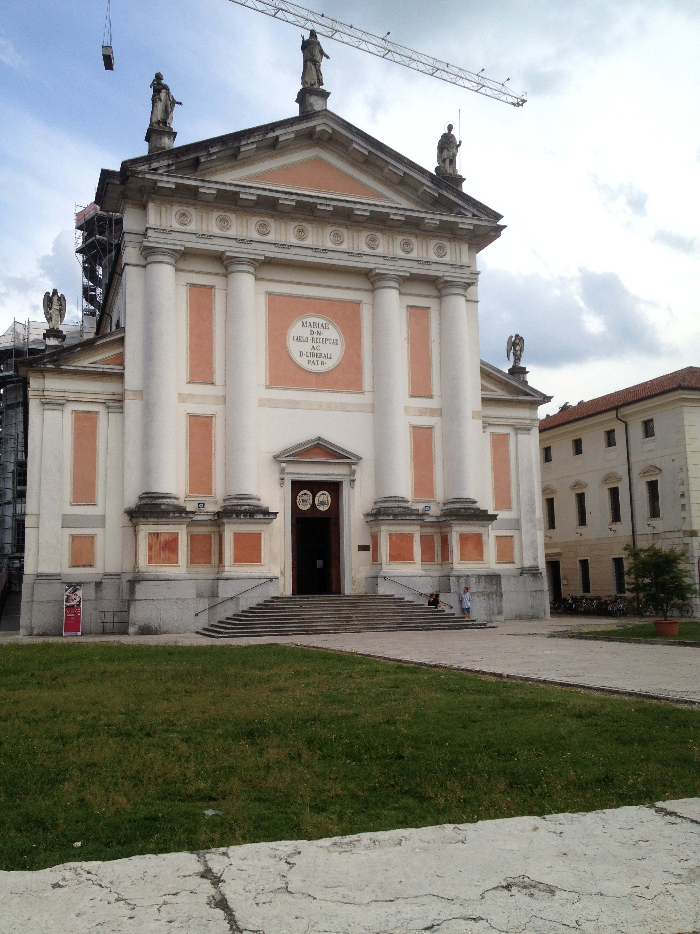 Duomo di Santa Maria Assunta e San Liberale